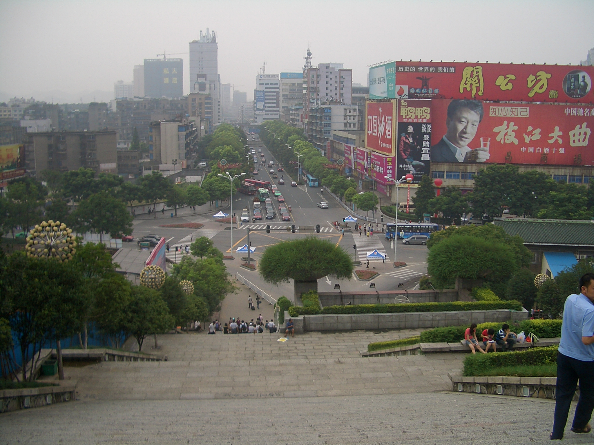 Looking down from Yichang train station square, along one of Yichang's main streets (toward the Chang Jiang)